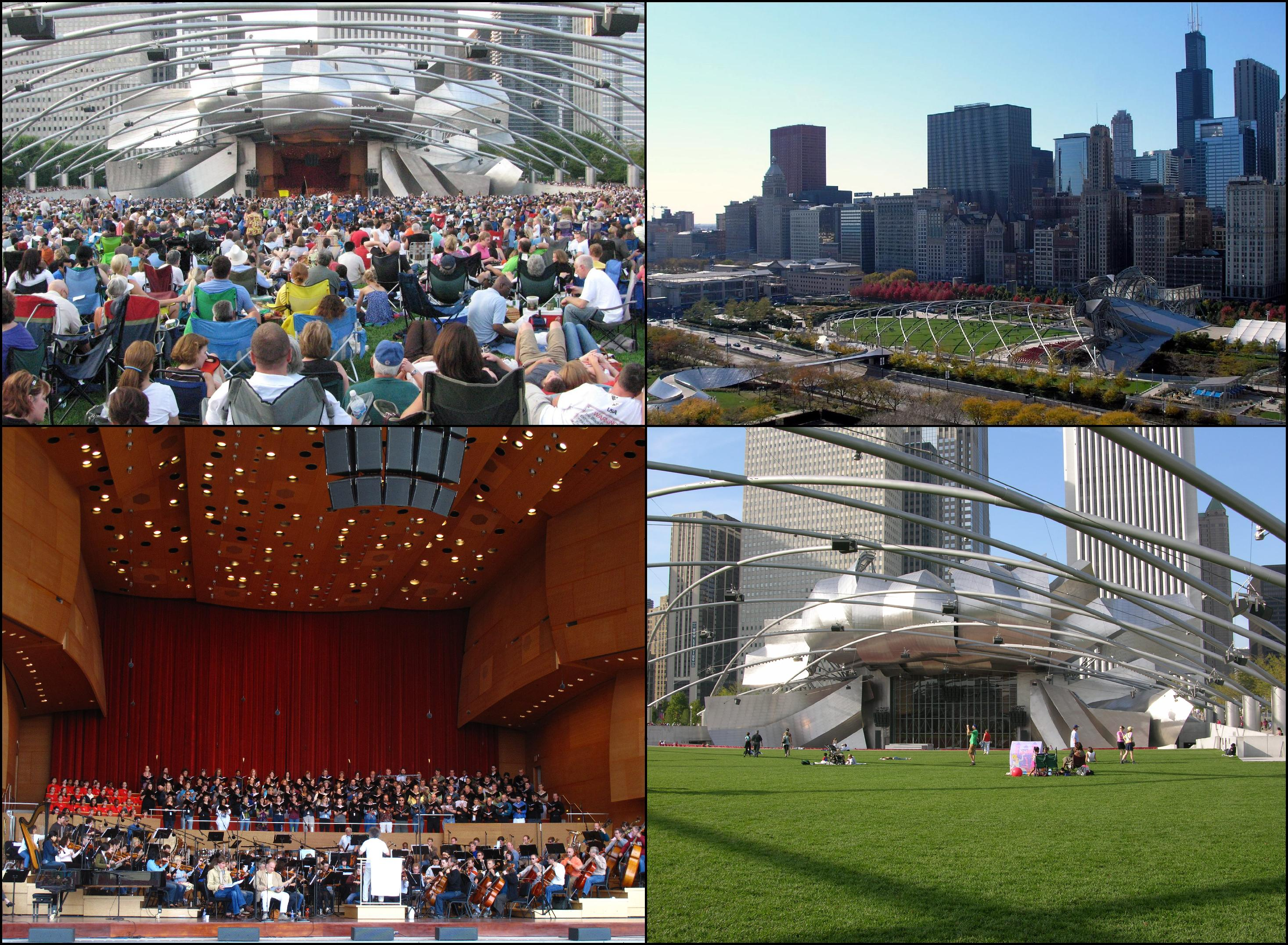 Composite image of four views of in Grant Park in Chicago, Illinois, USA.